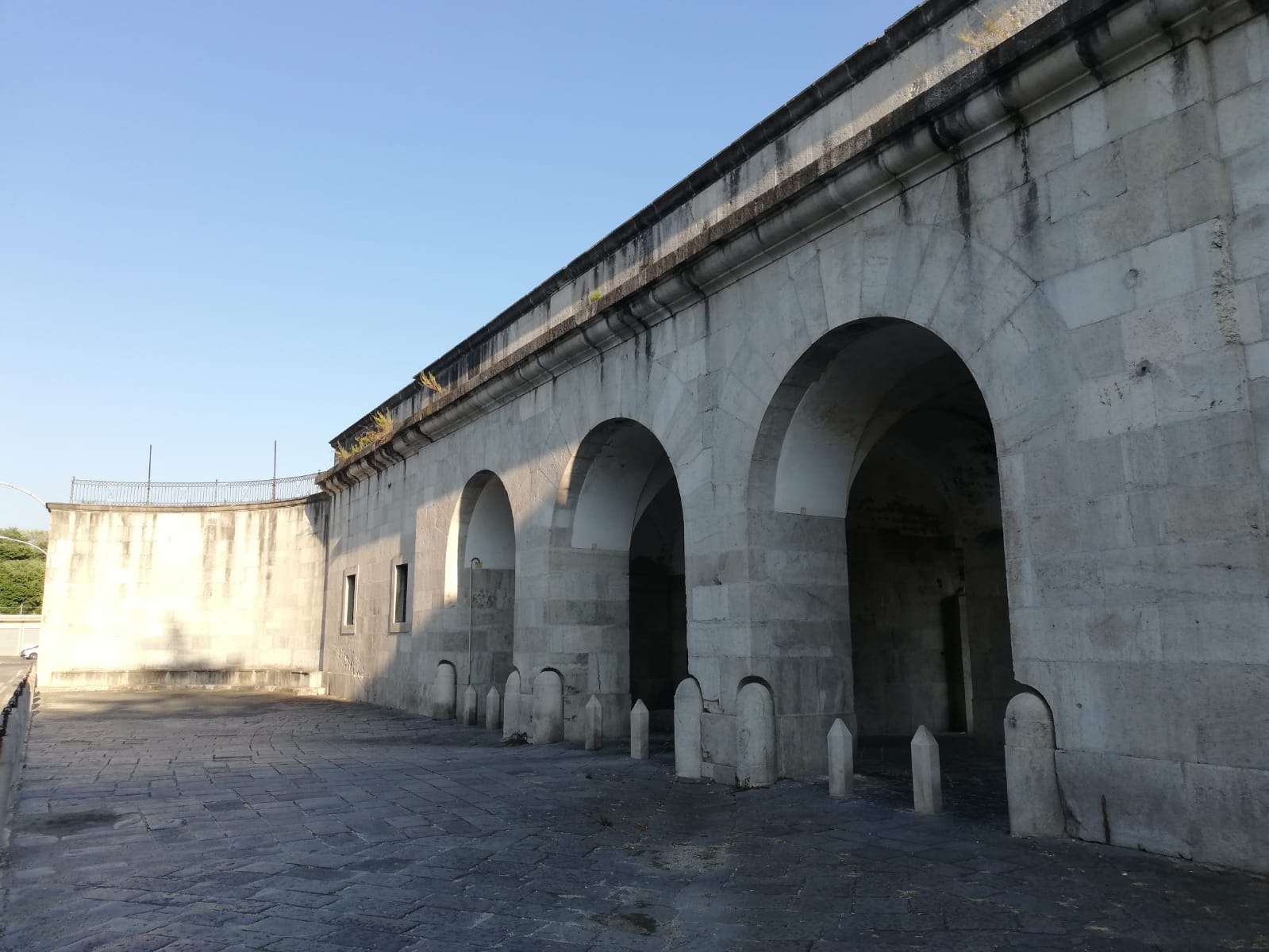 Porta Napoli, Capua,Italy